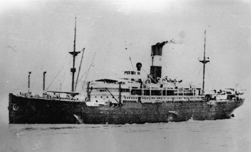 Blue Anchor liner Waratah: built in Glasgow in 1908 and lost off the coast of Natal in July 1909